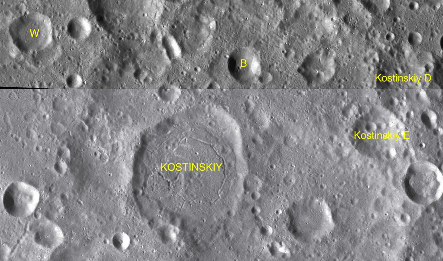 Parts of the charts LAC-47, LAC-65 used for the presentation